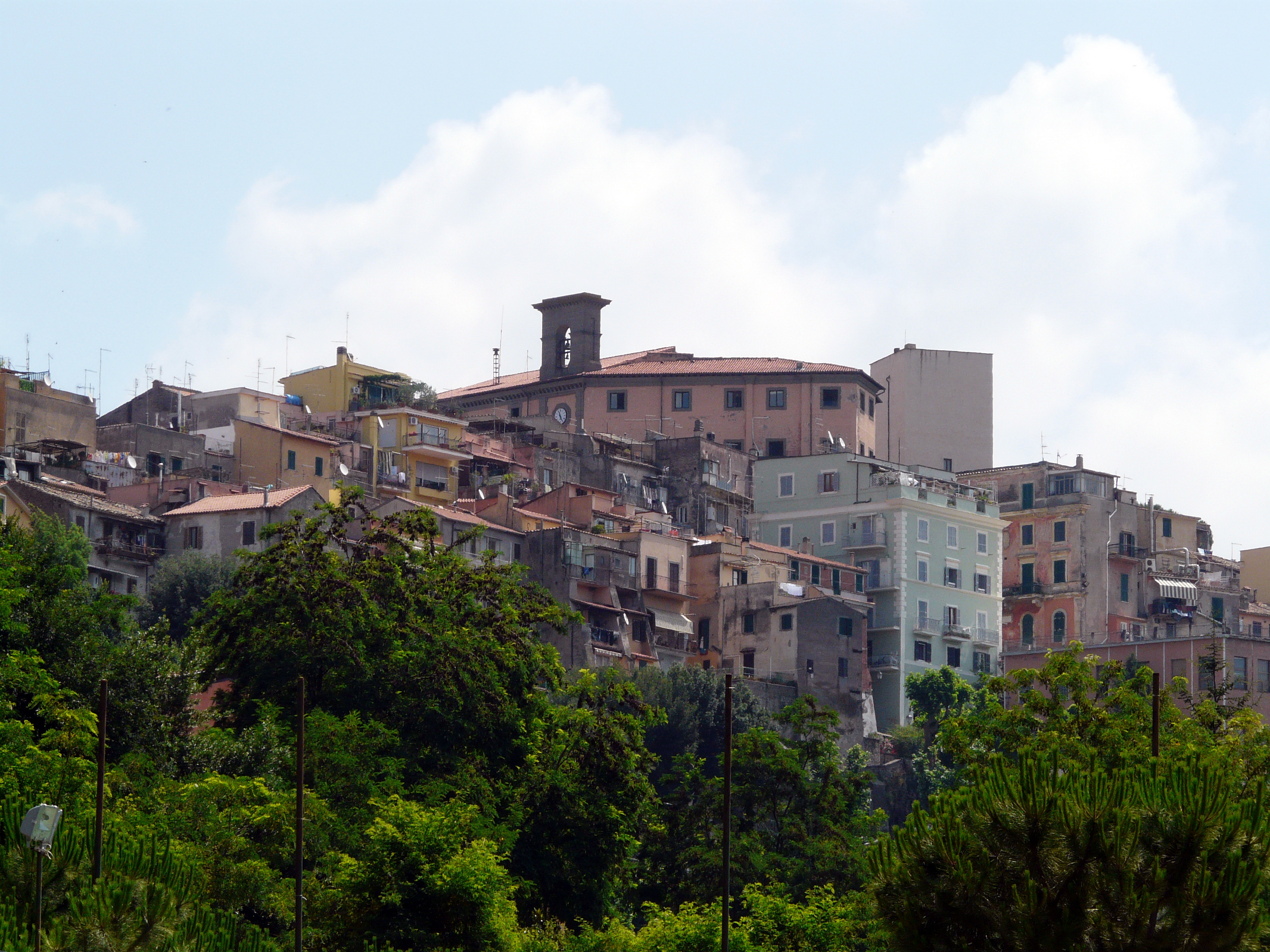 Marino (Rm)